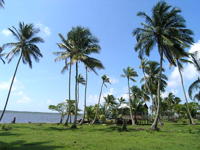 Krukira Lagoon in the Región Autónoma de la Costa Caribe Norte, Nicaragua.